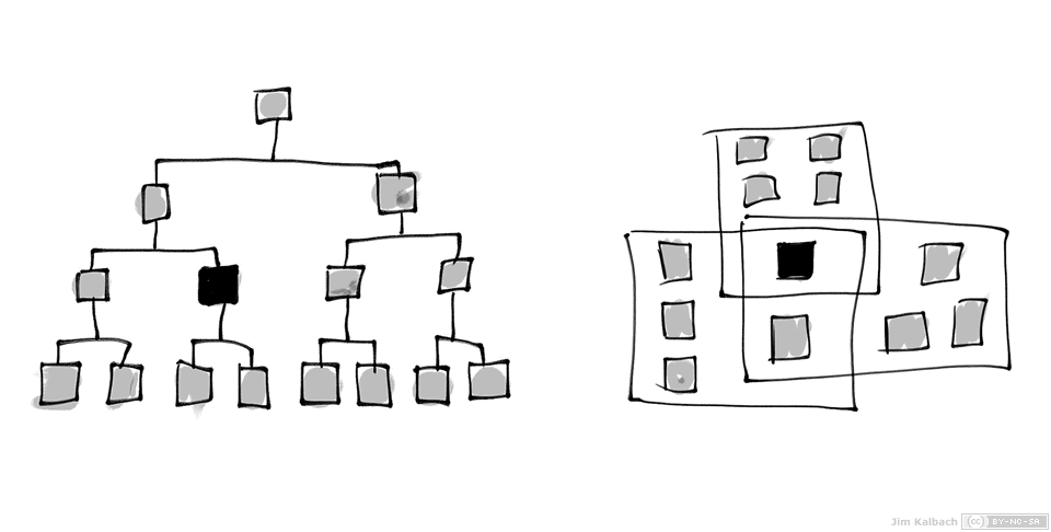 Navigational and faceted search